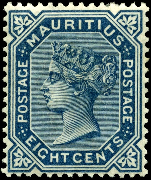 Mauritius 8c stamp of 1891, watermark crown CA, Stanley Gibbons n°106.